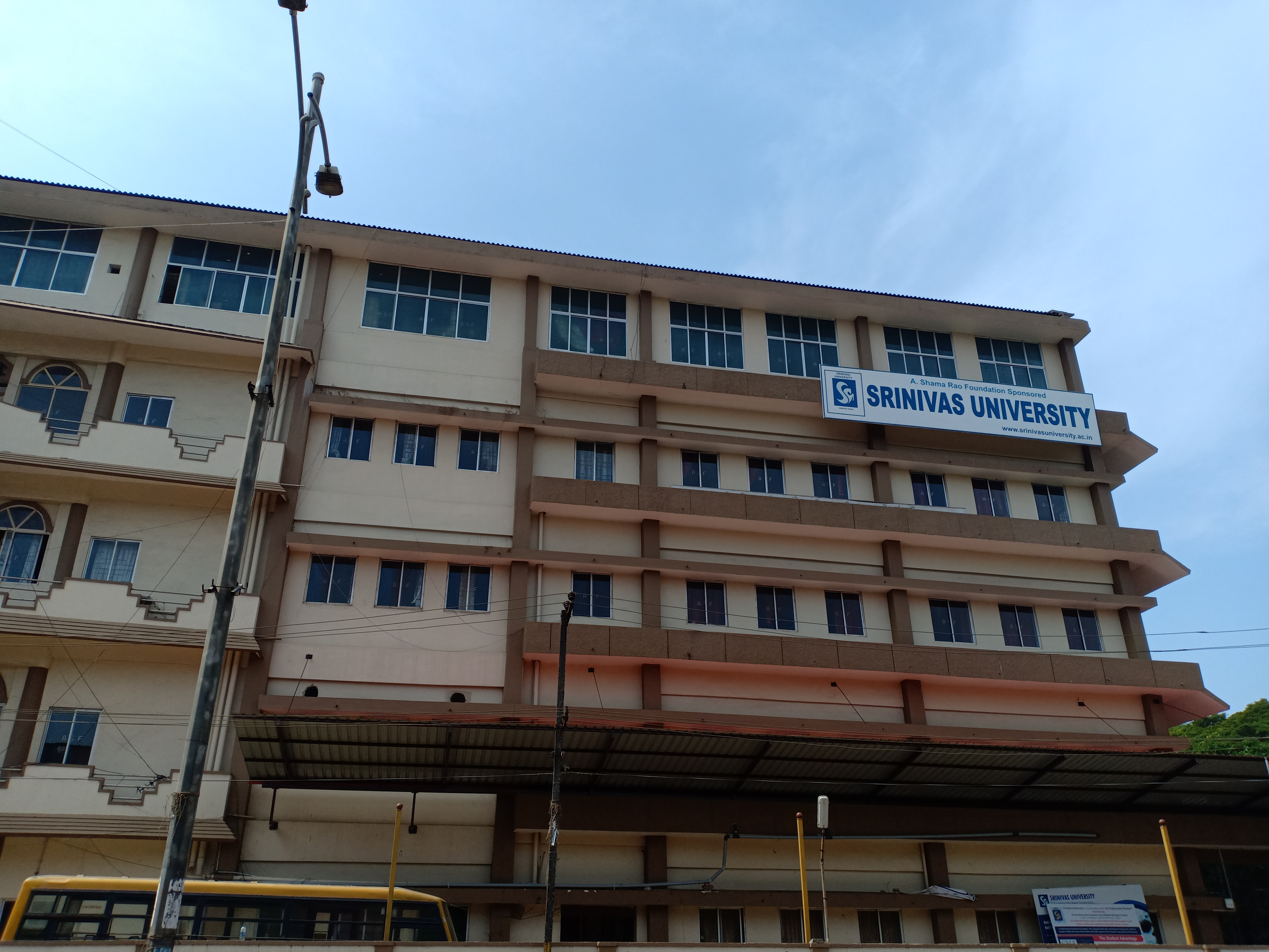 Srinivas University at Mangaladevi-Pandeshwar Road in Mangalore